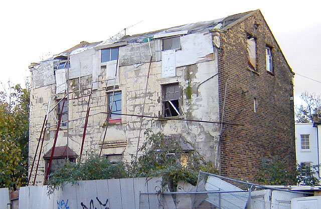 This is the house of the famous De Beauvoir Moleman, who dug tunnels underneath the surrounding area. he has since been evicted while the place is shored up...